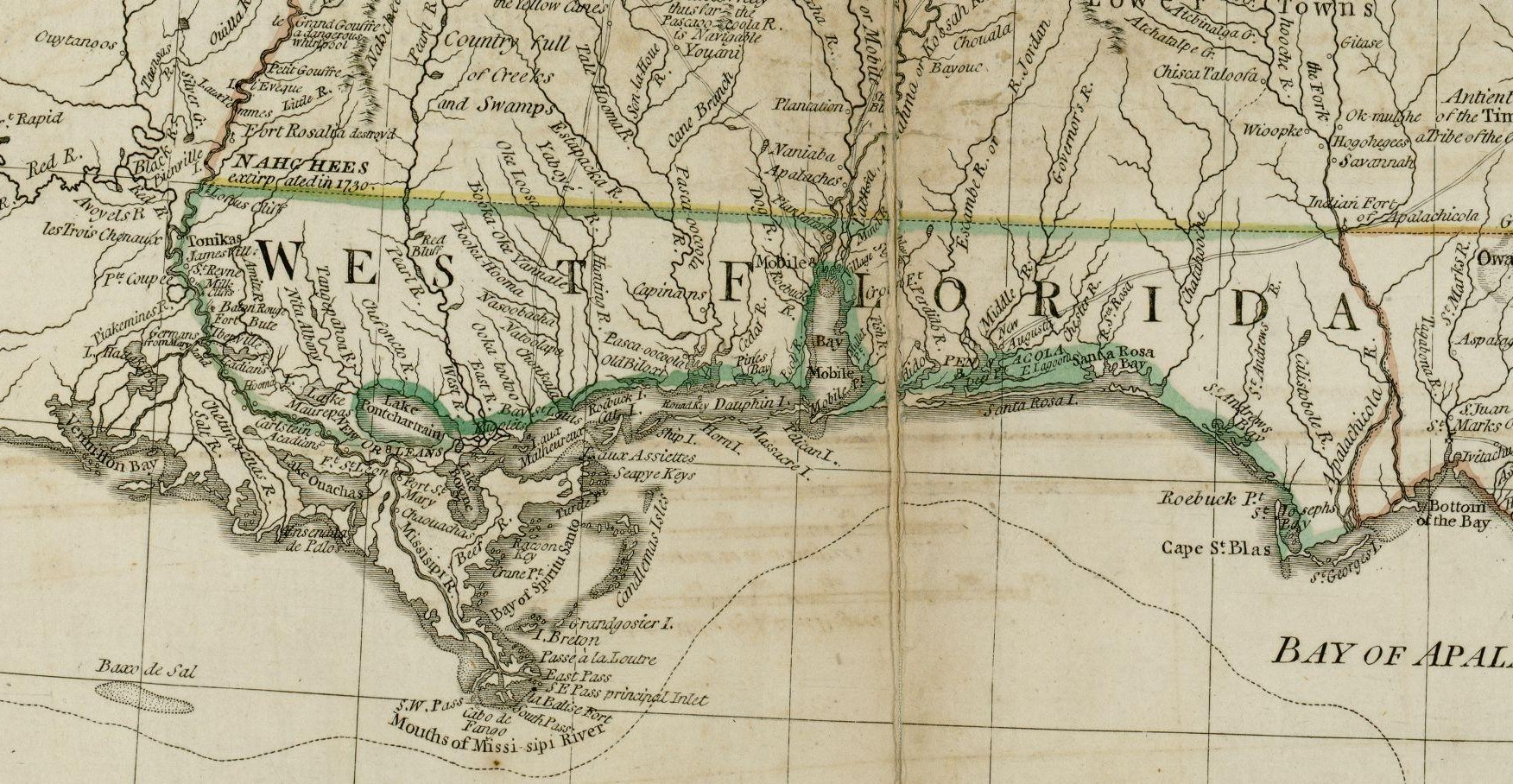 The source map depicts the southern British colonies in 1776, including the Carolinas, Georgia, and the Floridas, as well as labeling Indian tribal regions. This detail depicts British West Florida, roughly including the Gulf Coast between the Mississippi River and the Apalachicola River.